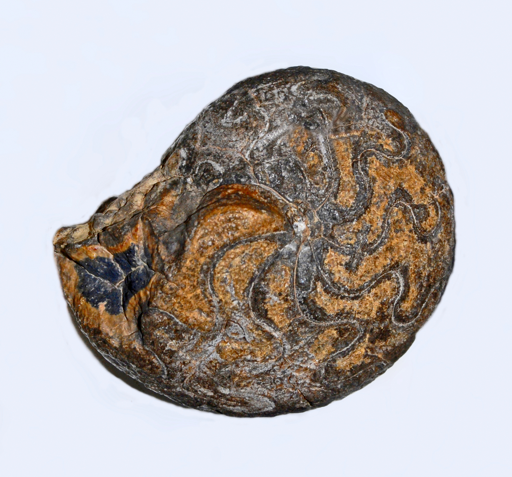 Fossil of Platyclymenia from Erfoud (Morocco)